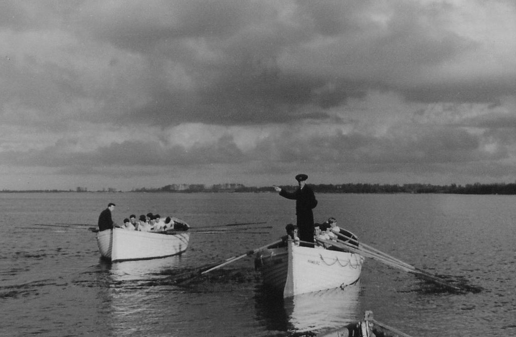 Sailors School Priwall - rowing on the Pötenitzer Wiek - 1955. In the Background Mecklenburg-Pomerania and the former East Germany (German Democratic Rebublic, DDR).